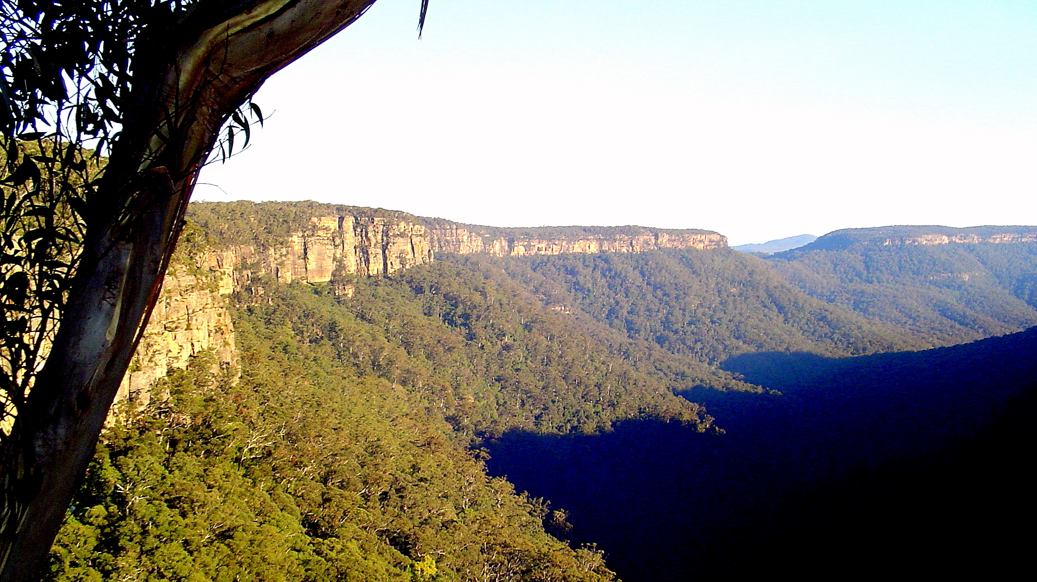 View from Fitzroy Falls NSW Australia